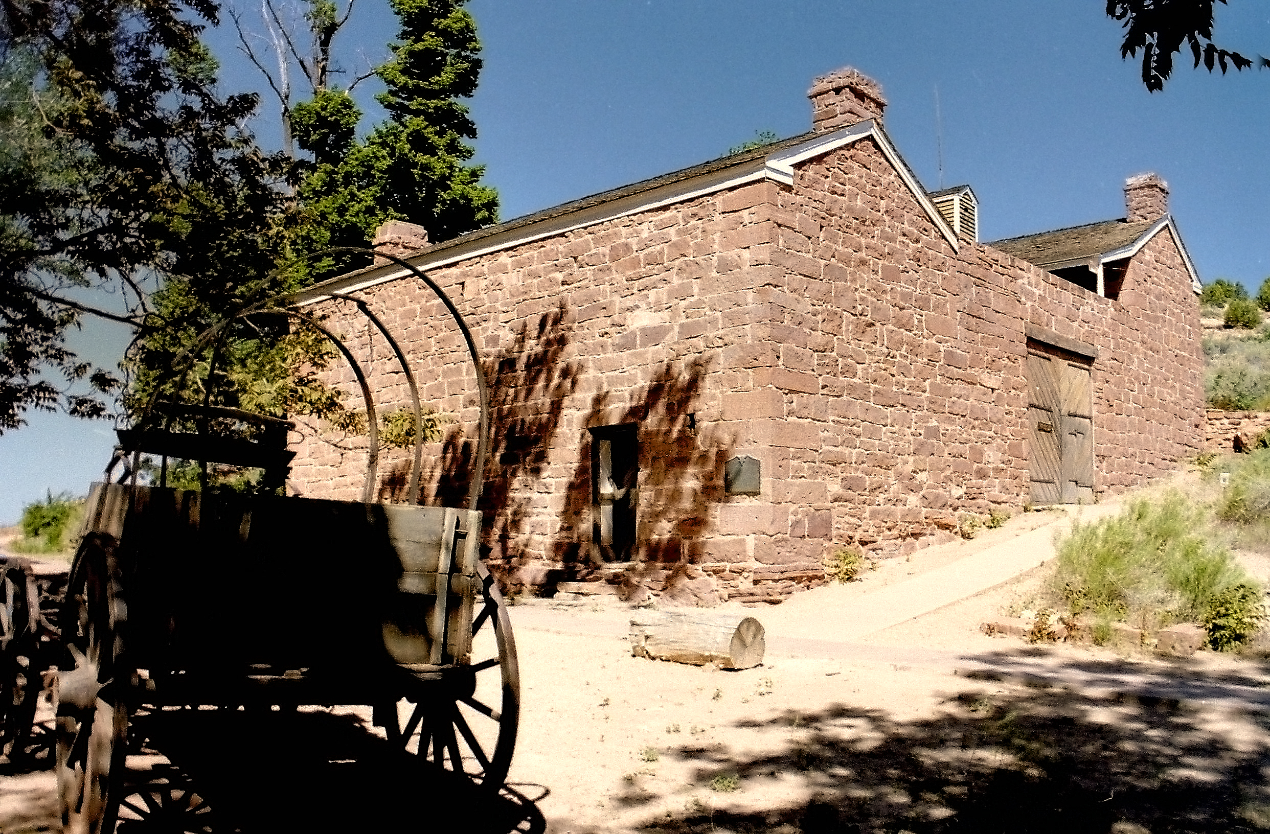 The Pipe Spring National Monument is located in northwest Arizona on the border of Utah, United States. View to Winsor Castle.